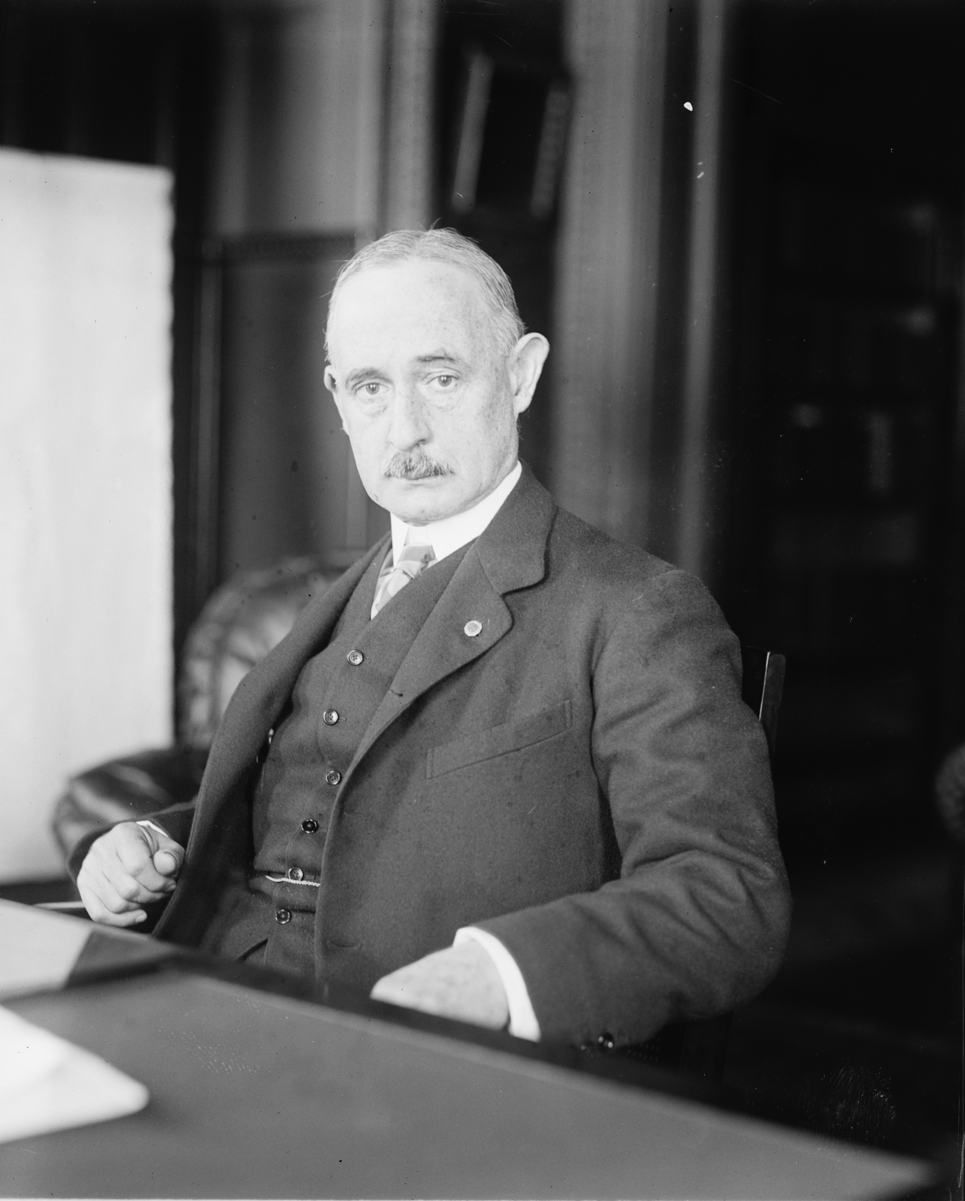 J. Mayhew Wainwright